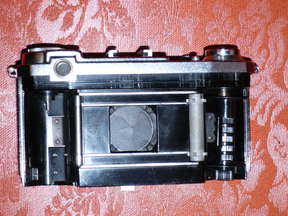 Zeiss Ikon Tenax II behind the lens metal blade shutter